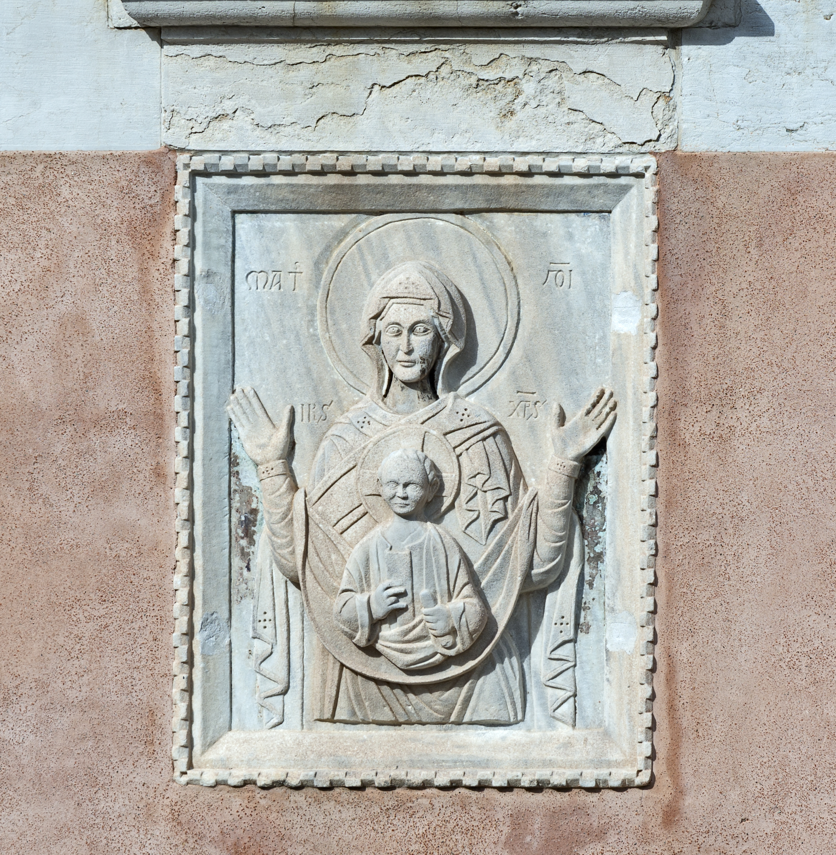 Church of the Abbey of Misericordia Venice. Virgin and Child on the segmental pediment with the inscription MAT. DNI / IKS. XPS. Work of thirteenth century.